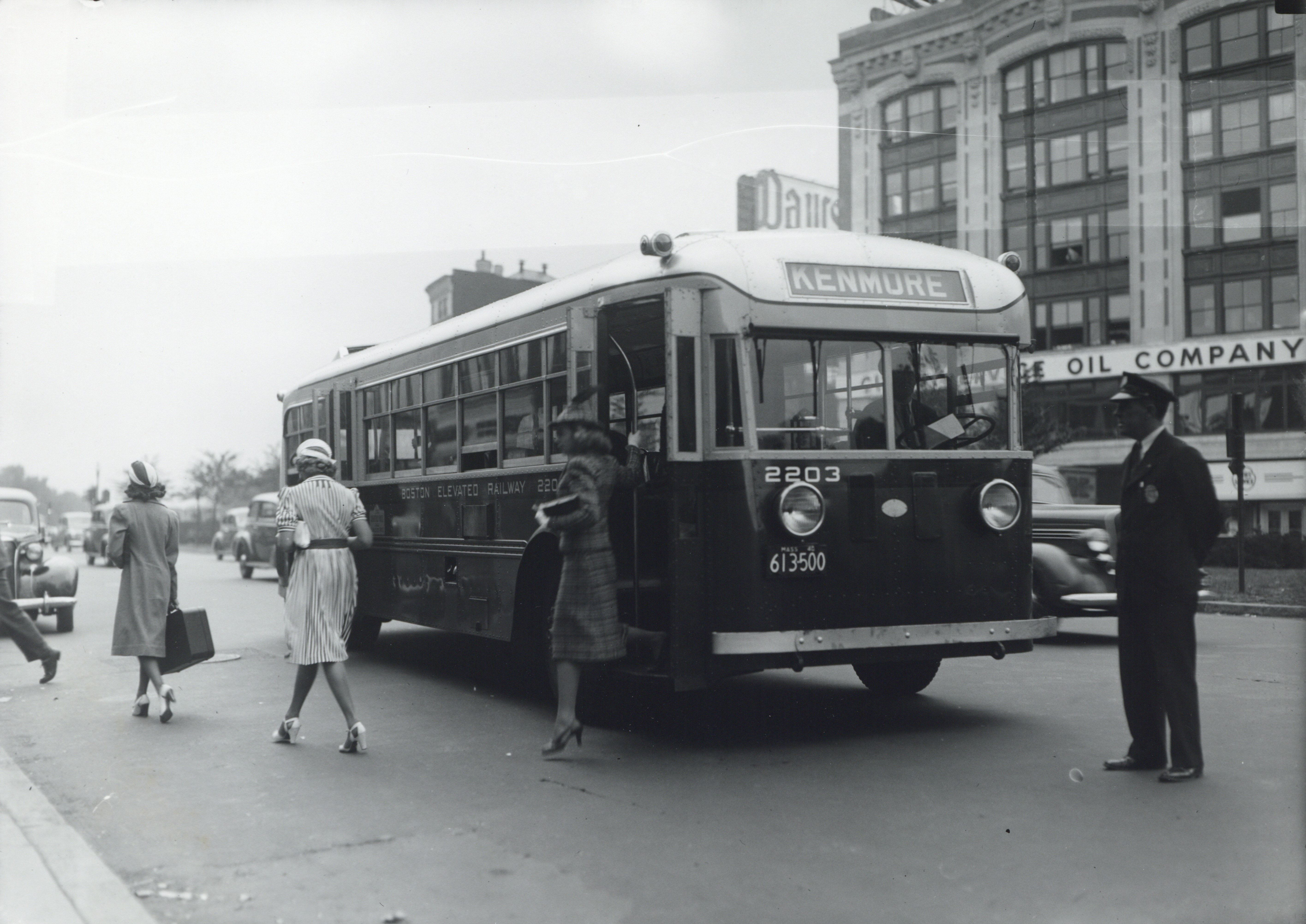 A Boston Elevated Railway bus, likely on the 58 or 60 route, deboards passengers at Kenmore Square in the 1940s. The bus is a Model 40-R(DE) diesel-electric built by Twin Coach in 1937.